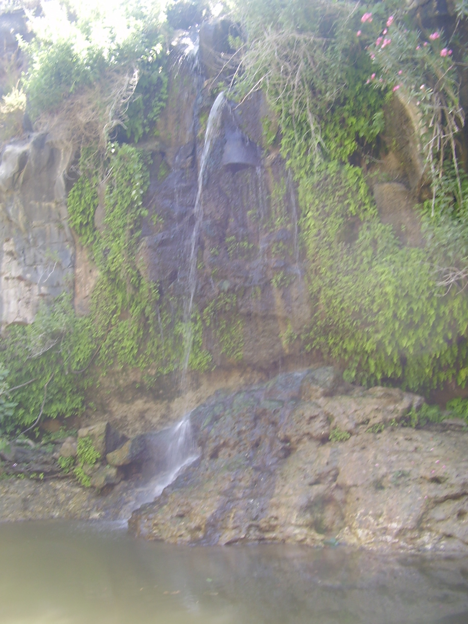 The Black Waterfall, El- Al River, Golan Heights.